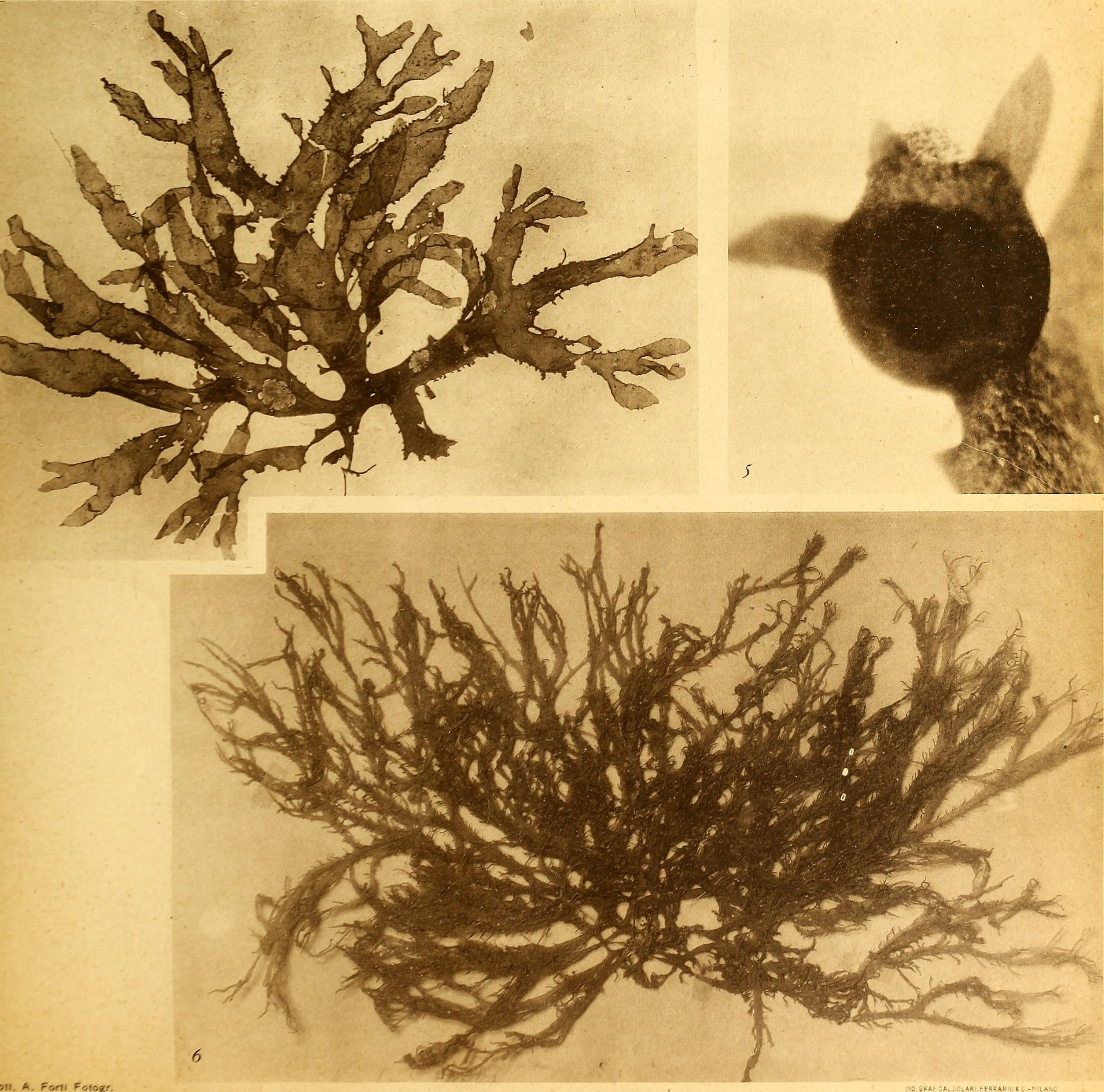 Title: Alghe di Australia, Tasmania e Nuova Zelanda raccolte dal rev. dott. Giuseppe Capra nel 1908-1909 Year: 1922 (1920s) Authors: Toni, Giovanni Battista de, 1864-1924; Forti, Achille, 1878-1937; Capra, Giuseppe Subjects: Algae; Algae; Algae Publisher: Venezia : Premiate Officine Grafiche Carlo Ferrari Text Appearing Before Image: ' Text Appearing After Image: ; ; - Forti Fotogr